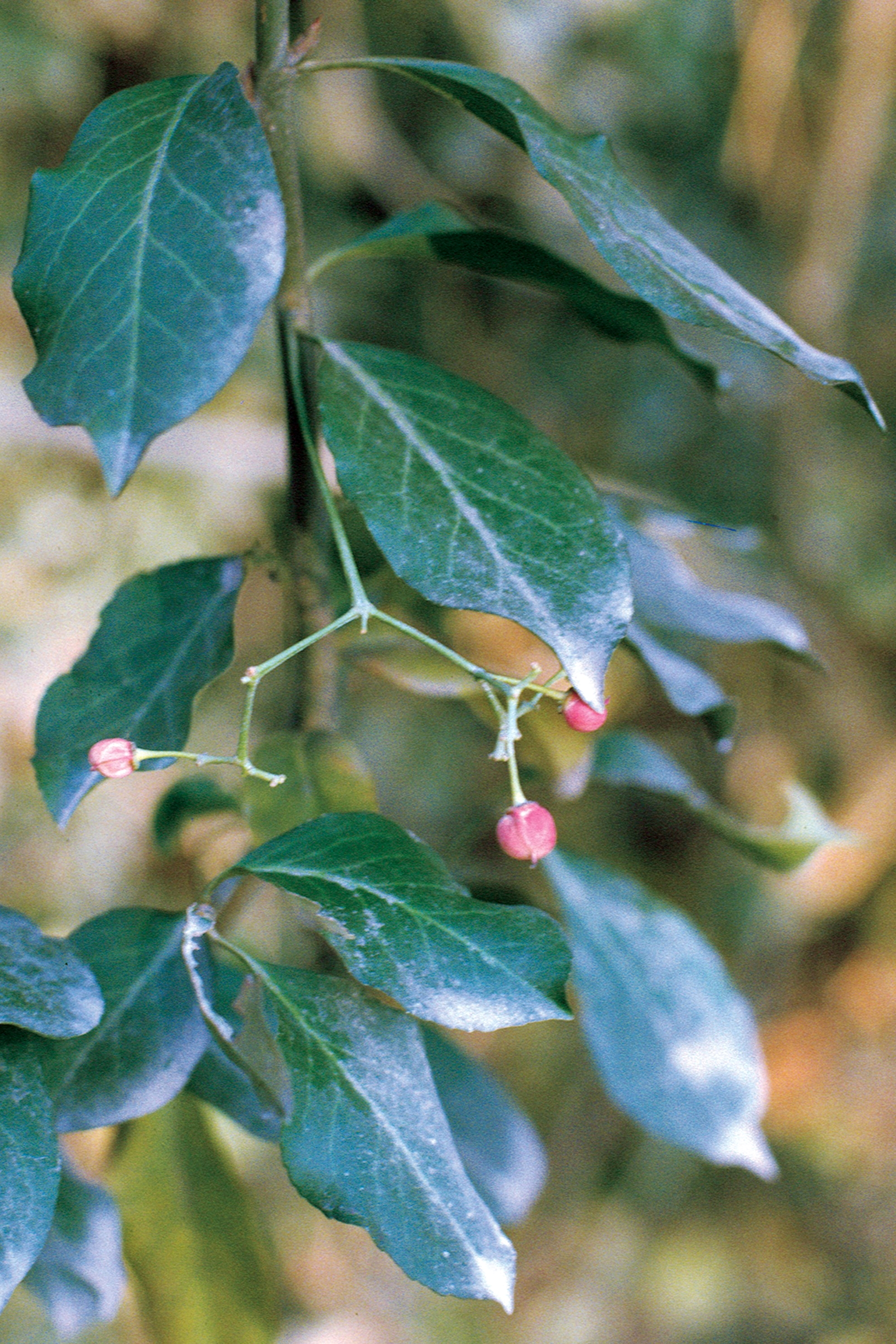 winter creeper Euonymus fortunei (Turcz.) Hand.-Maz. Descriptor: Foliage Description: with fruit Image type: Field Image location: United States